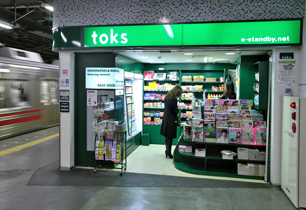 The toks in Jiyūgaoka Station